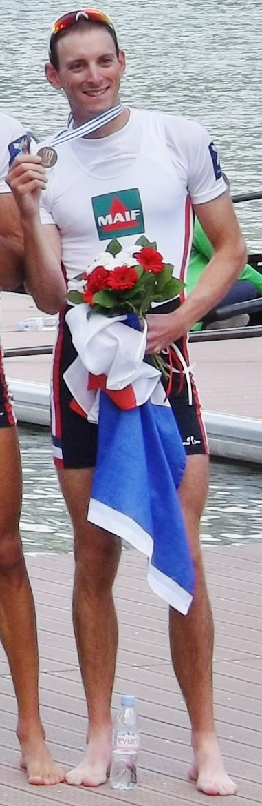 Sight of four French rowers showing to the (mostly French) public their bronze medal, during the 2015 World Rowing Championships, on the lac d'Aiguebelette lake, in Savoie, France.